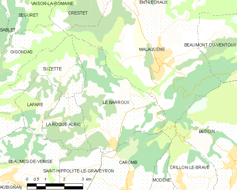 Map of French municipality Le Barroux